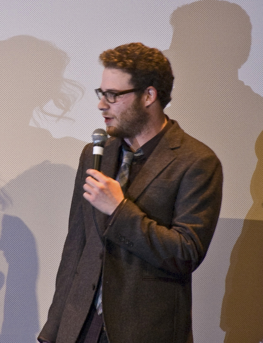 Seth Rogen at the Observe and Report world premiere.